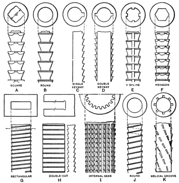 A chart of broaches and an example of their work. Key: A. Square B. Round C. Single keyway D. Double keyway E. 4-spline F. Hexagon G. Rectangular H. Double-cut I. Internal gear J. Round K. Helical groove